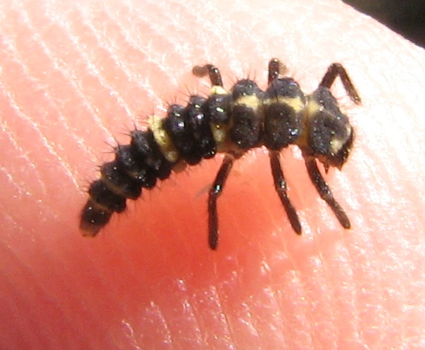 Lady beetle larva, Coleomegilla maculata lengi. Sunnyside Farm. Dover, York County, Pennsylvania, USA.